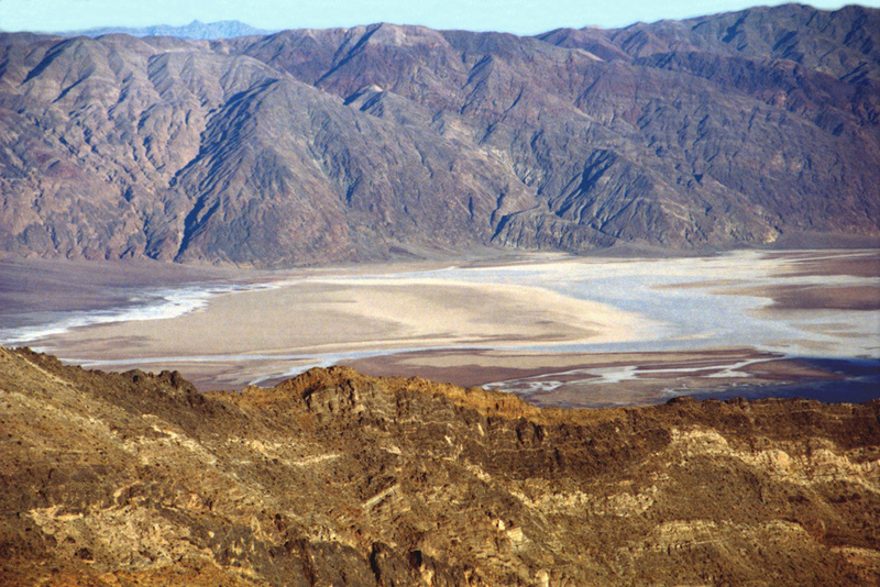 Death Valley National Park, California, USA, Badwater Basin from the Mahogany Flat trail to Telescope Peak's summit in the Panamint Range with the Amargosa Range in the background.